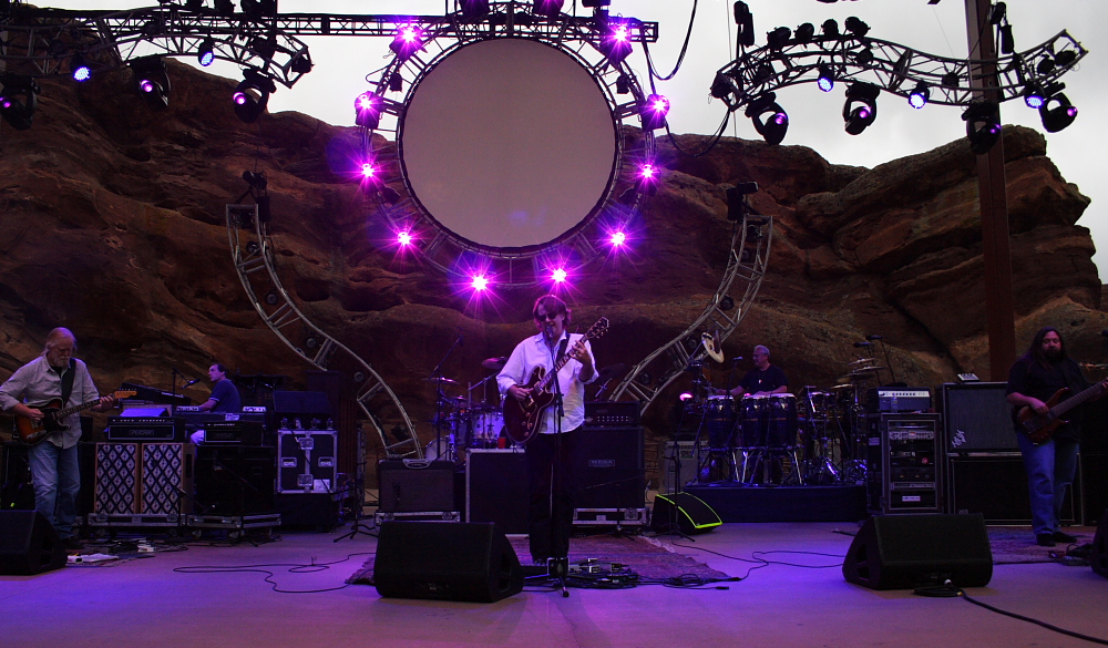 Widespread Panic concert at Red Rocks Amphitheatre in Morrison, CO. Widespread Panic holds the Record for sellouts at Red Rocks. Photo Mike Hardaker